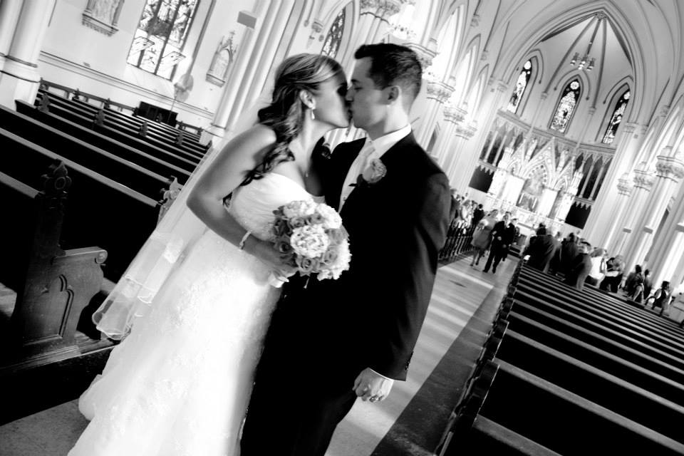 Married Couple Kiss in St. Mary's Church in Dedham, MA